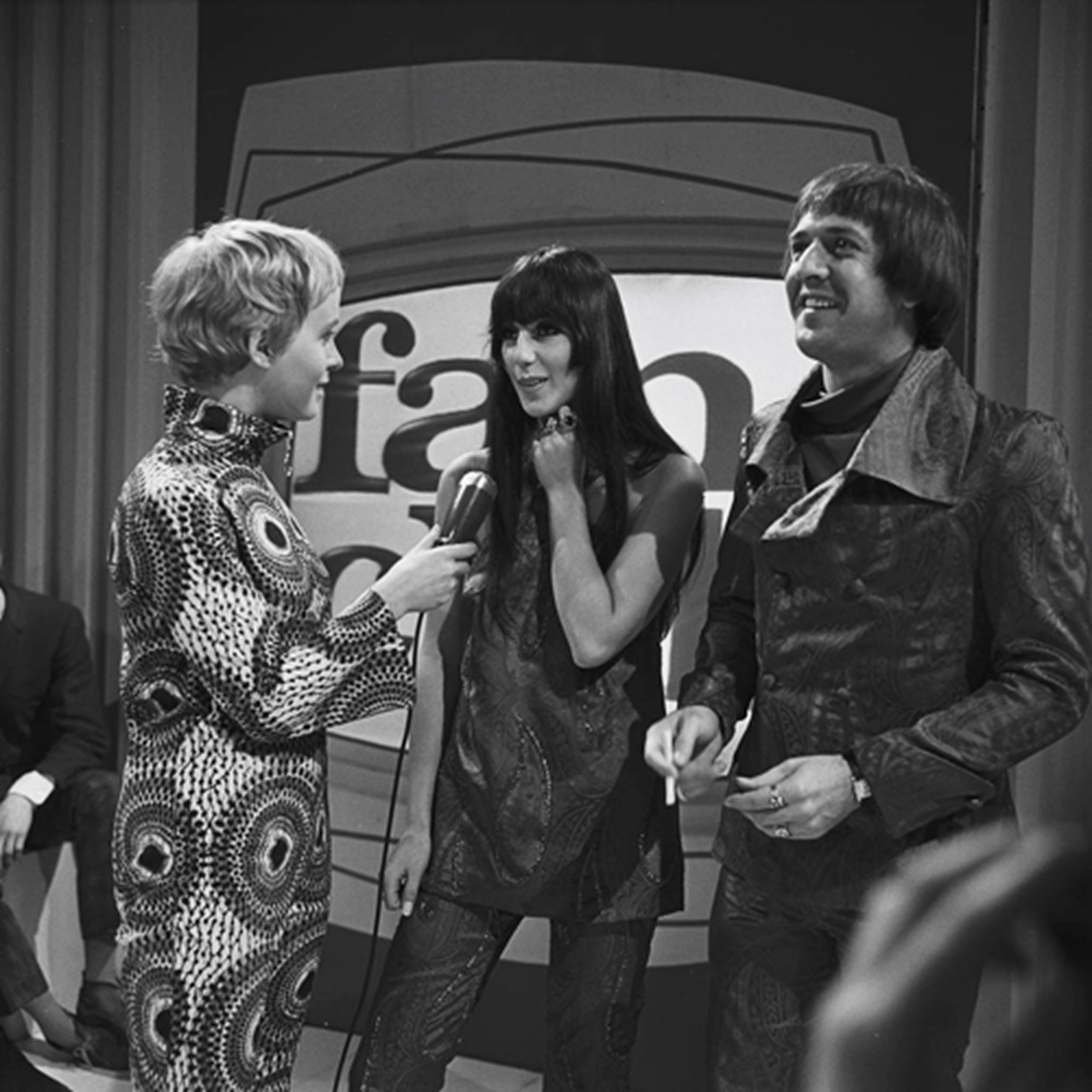 Sonny & Cher interviewed by Judith Bosch after performing the song "The beat goes on" on Dutch TV programme Fanclub, 4 February 1967